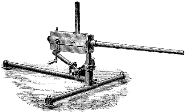 Drawing of single-barrel Gardner machine gun.